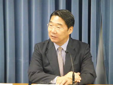 Kihei Maekawa, Vice-Minister of Education, Culture, Sports, Science and Technology, attended the press conference at the Central Government Building No.7 in Chiyoda Ward, Tōkyō Metropolis on October 17, 2016.